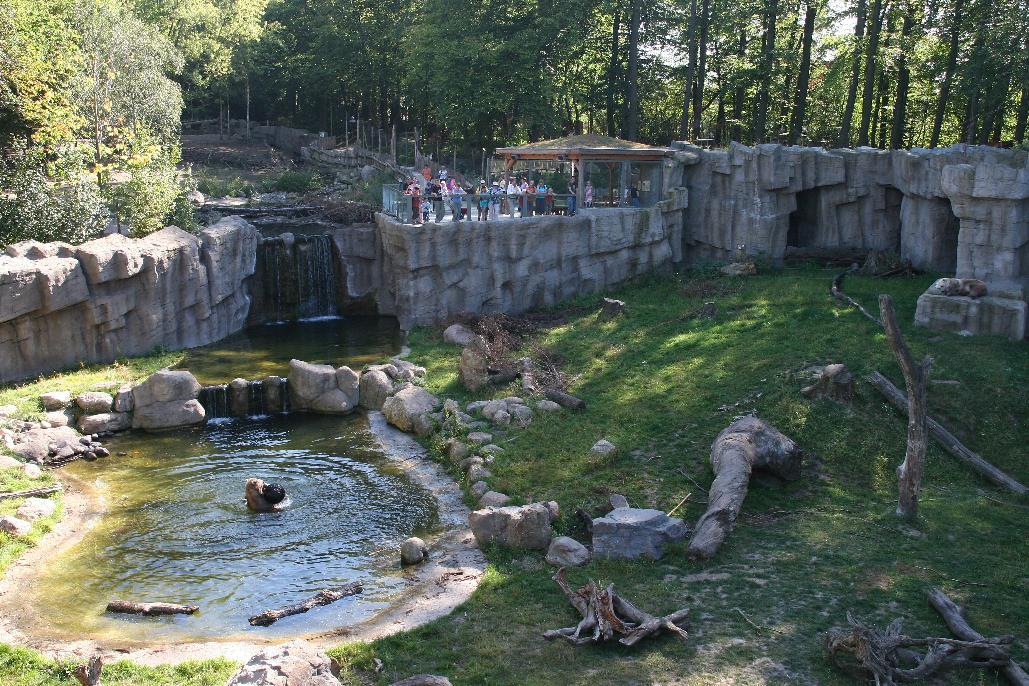 Zoo Osnabrück: Kajanaland, Gehege der Bären und Silberfüchse